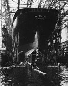 The stern of the Imperator before her launch.